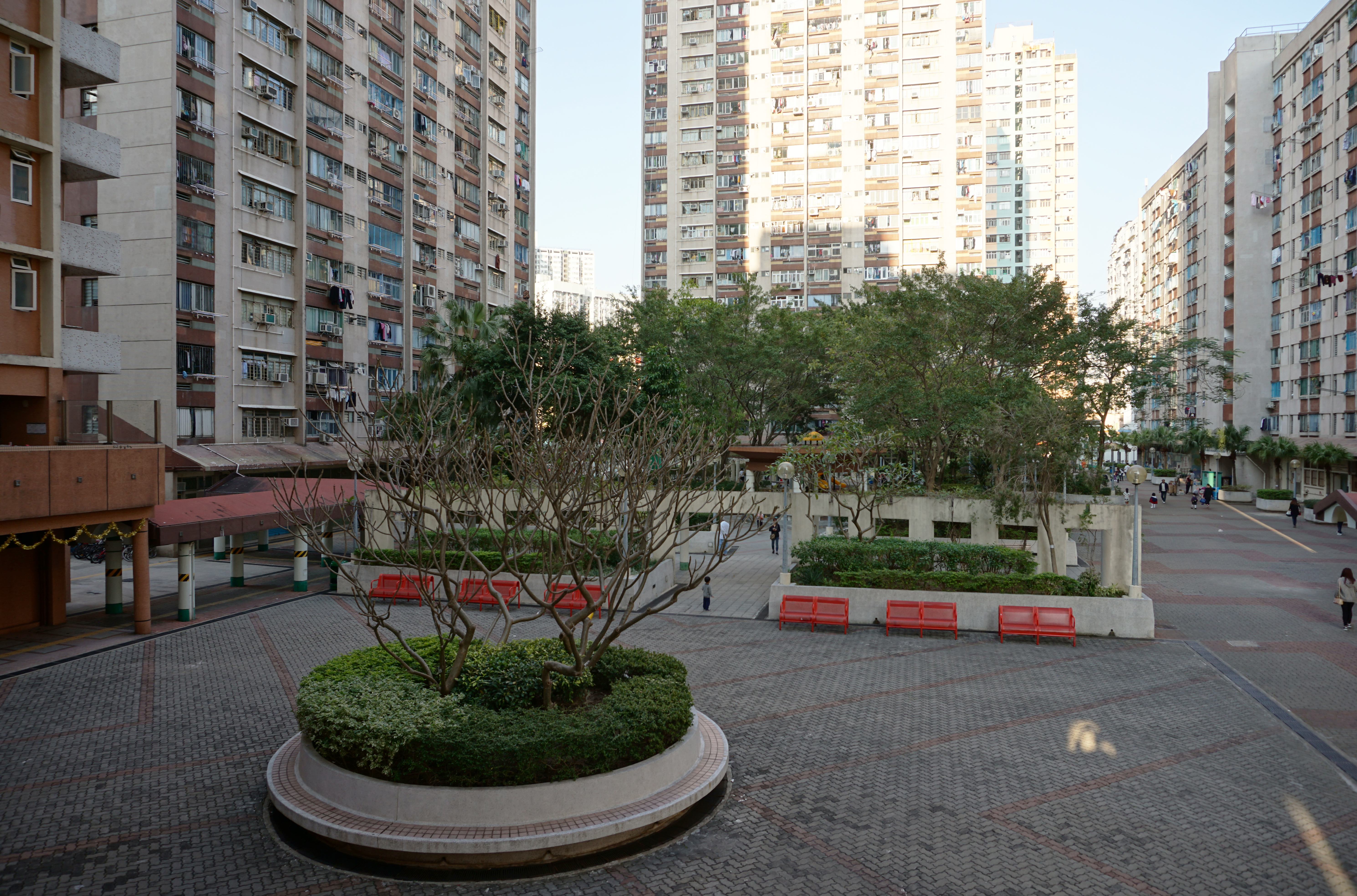 Shui Pin Wai Estate in Yuen Long, Hong Kong.